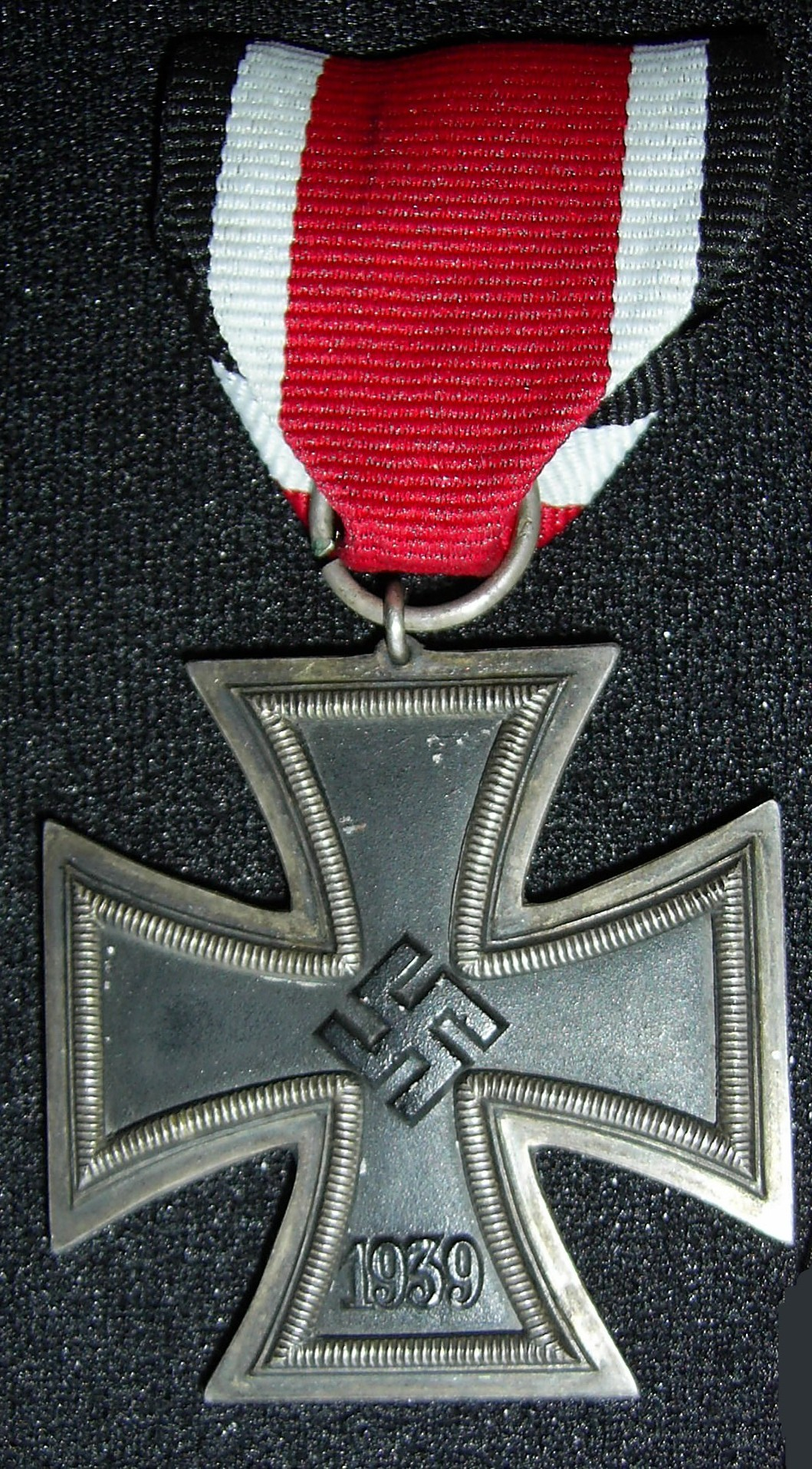 Iron Cross II. 1939